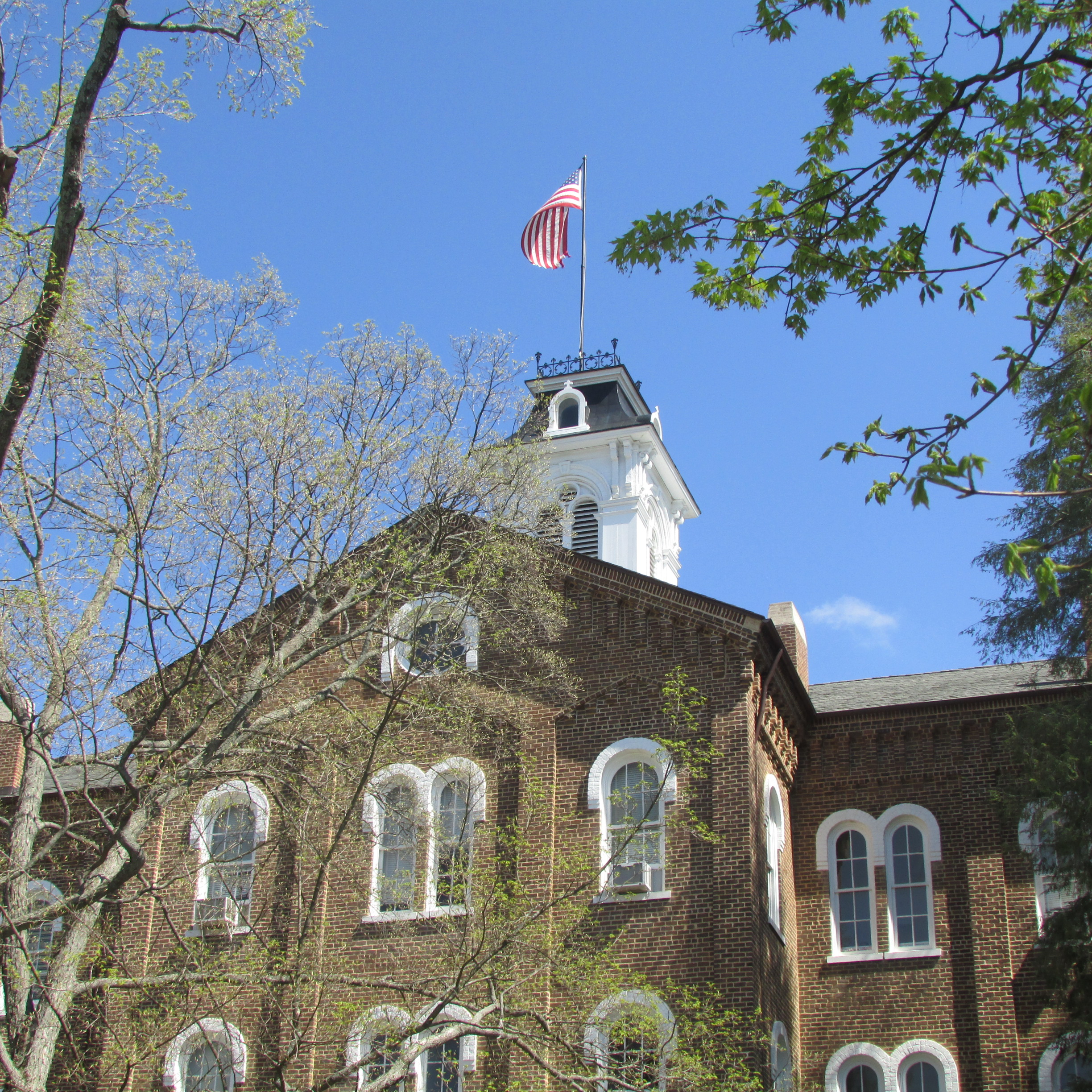 Anderson Hall at Maryville College, Maryville, Tennessee.